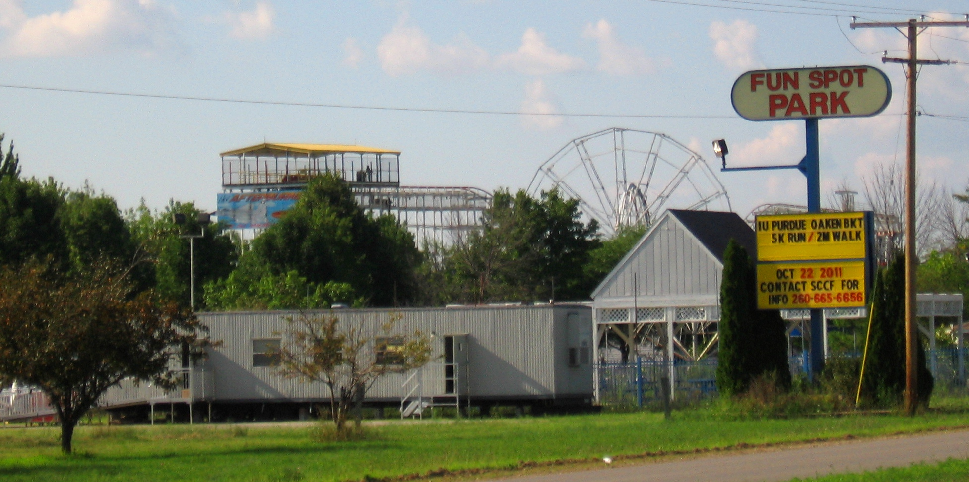 Fun Spot Amusement Park, in Steuben County, Indiana, USA